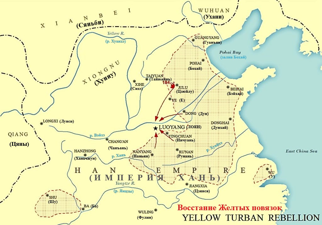 Map showing the Yellow Turban Rebellion in Eastern Han Dynasty of China